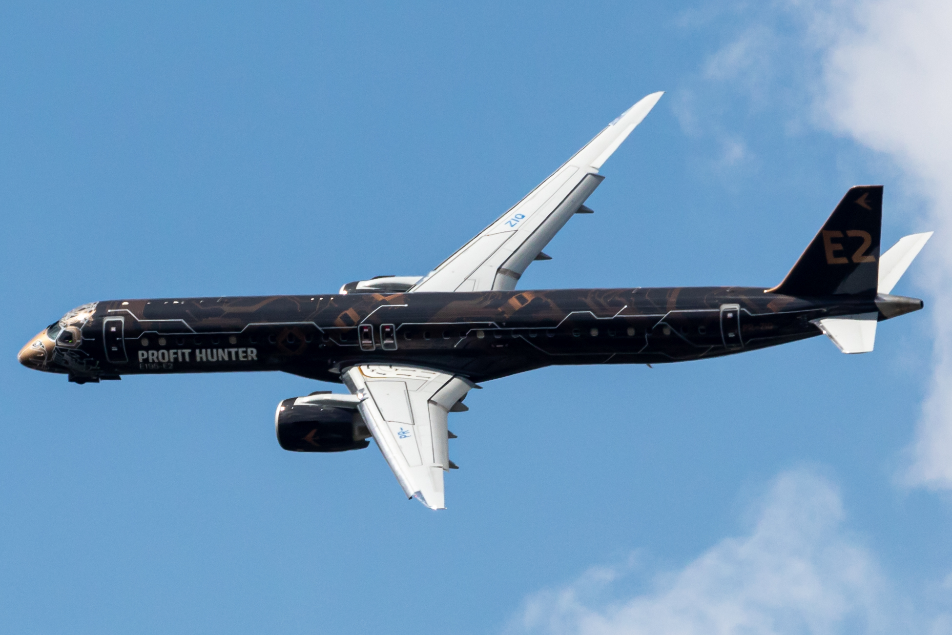 Embraer E195-E2 on flying display at Paris Air Show 2019